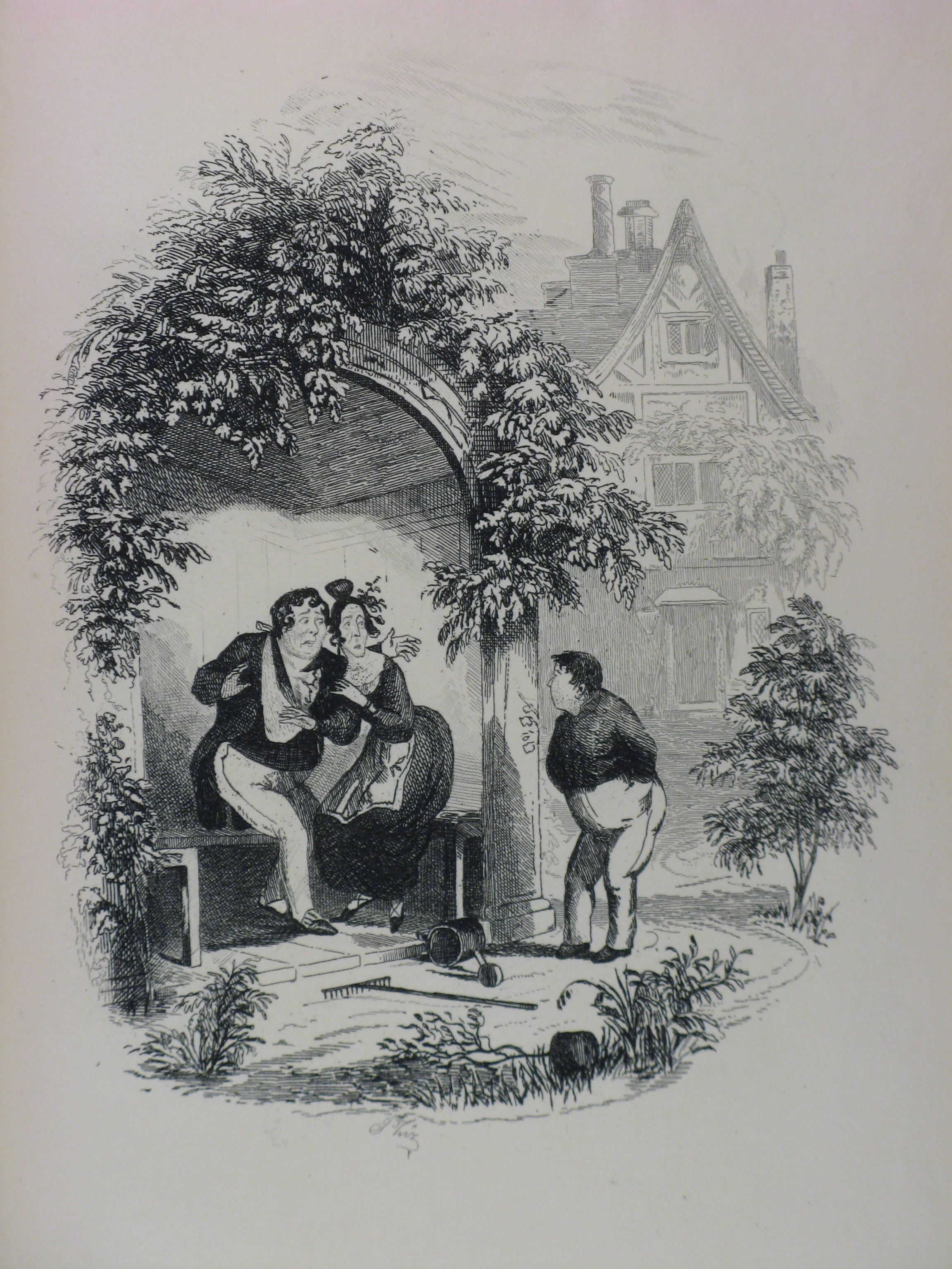 A photograph of an engraving in The Writings of Charles Dickens volume 1, The Pickwick Club, titled "The Fat Boy awake".